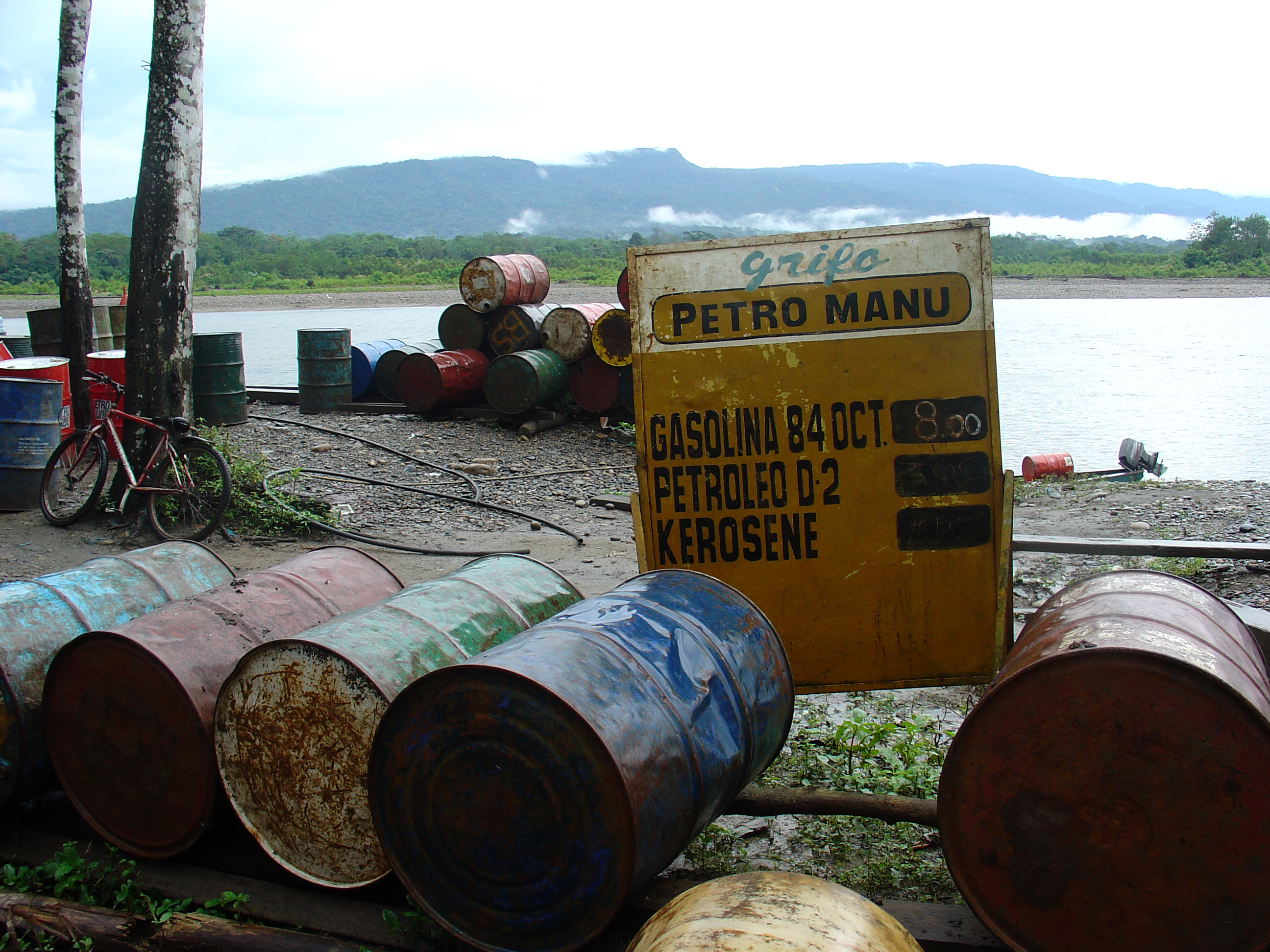 Please, have this description accessible to all by translating it in different languages.